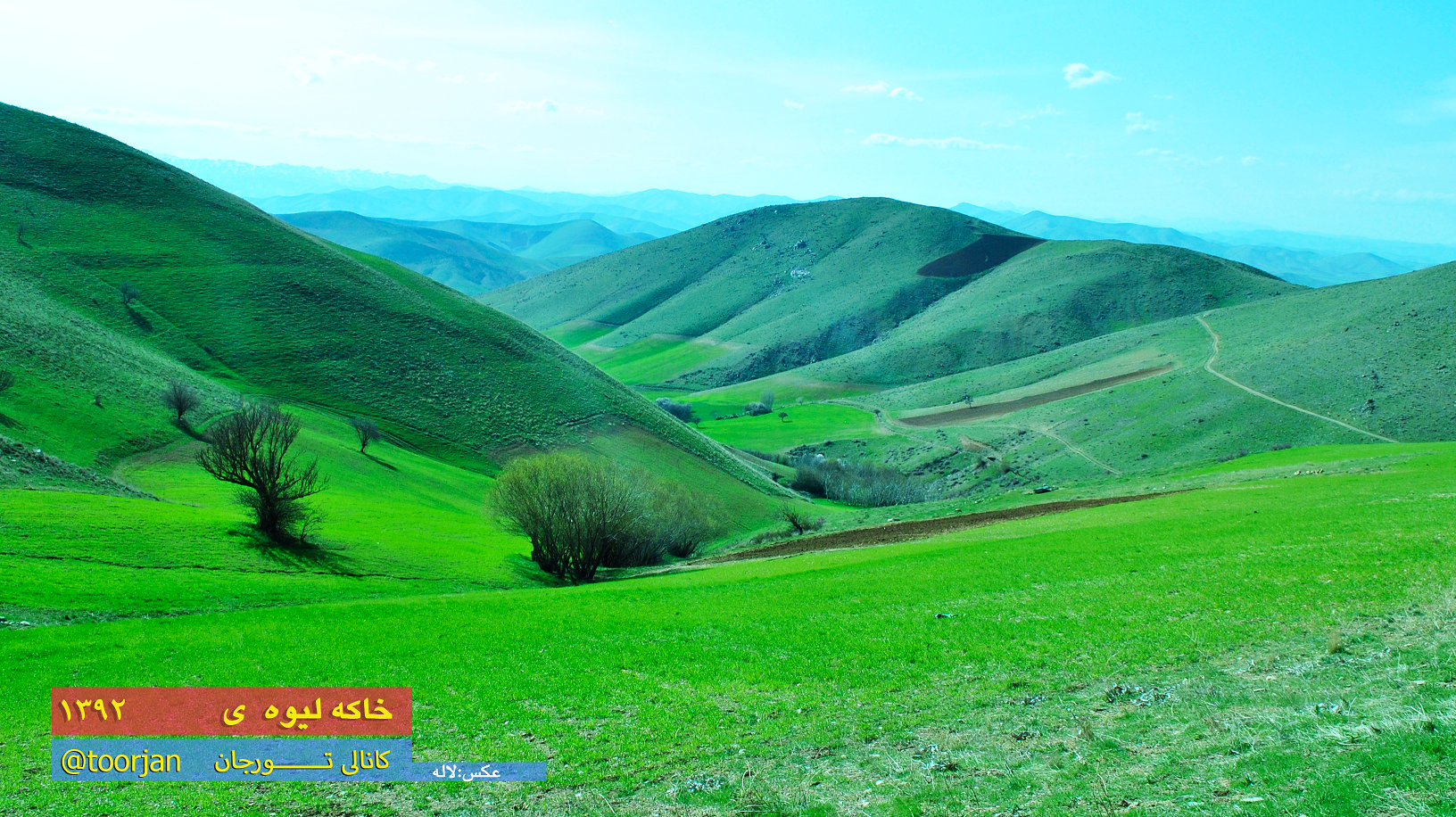 torjan